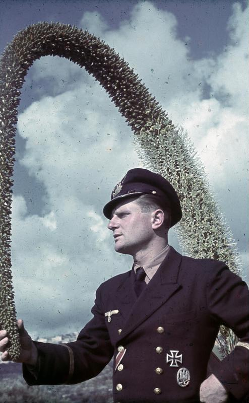 Information added by Wikimedia users. *